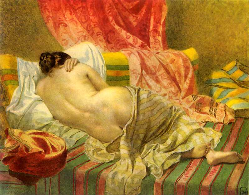 Odalisque